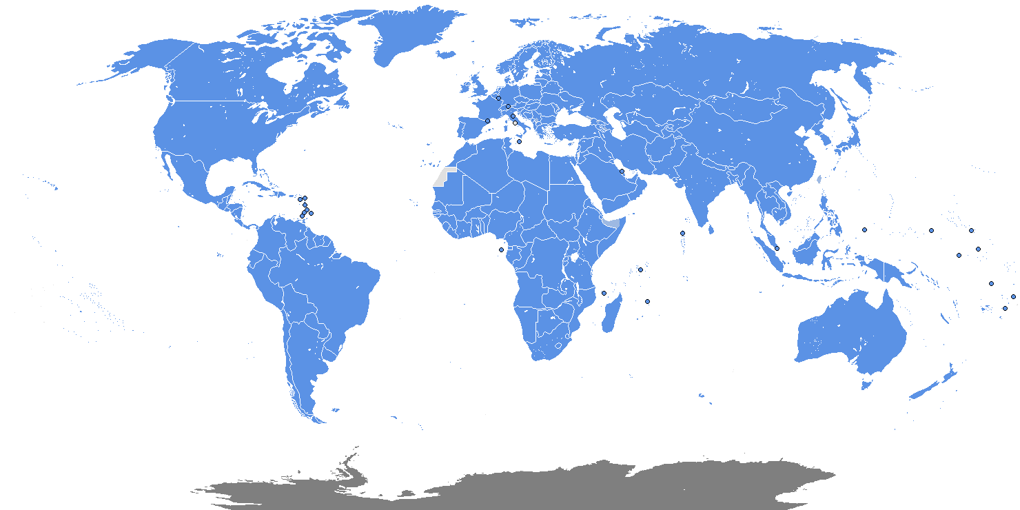 The map of all UN members, according to the UN. Therefore, nations unrecognized by the UN (e.g. Taiwan, Kosovo) are still shaded because the UN still considers (or at least has not passed a resolution saying otherwise) that they are part of some UN member nation. Newly made image for Wikipedia, made out of several blank world maps. I replaced the previous UN members map, because of: The low quality of the image Green made UN blue No dots for the very small nations If you know any improvements please let me know I would be happy to update it! User:Allard